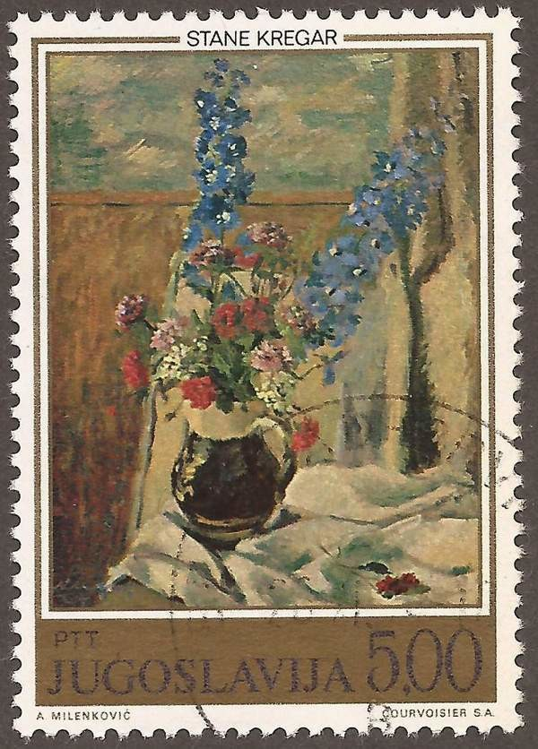 "Larkspur", by Stane Kregar